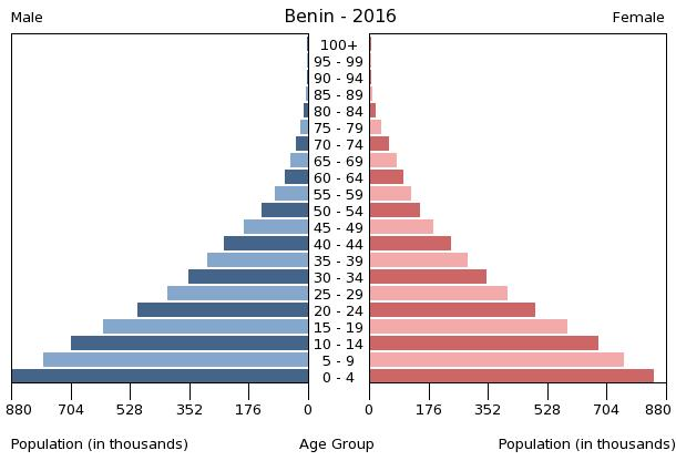 The population pyramid of Benin illustrates the age and sex structure of population and may provide insights about political and social stability, as well as economic development. The population is distributed along the horizontal axis, with males shown on the left and females on the right. The male and female populations are broken down into 5-year age groups represented as horizontal bars along the vertical axis, with the youngest age groups at the bottom and the oldest at the top. The shape of the population pyramid gradually evolves over time based on fertility, mortality, and international migration trends.